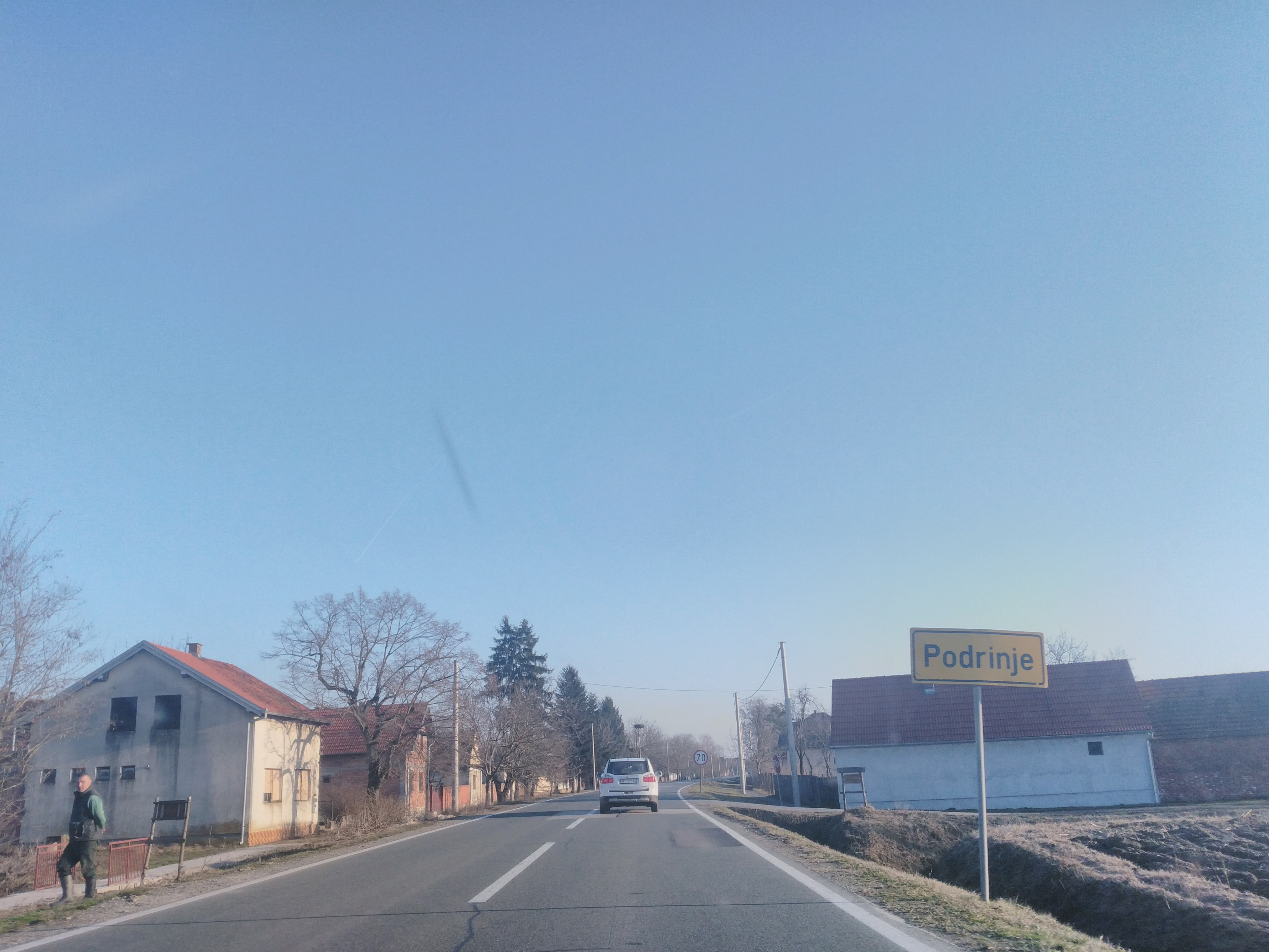 Podrinje (Serbian Cyrillic: Подриње) is a village in Croatia, located in the municipality of Markušica.